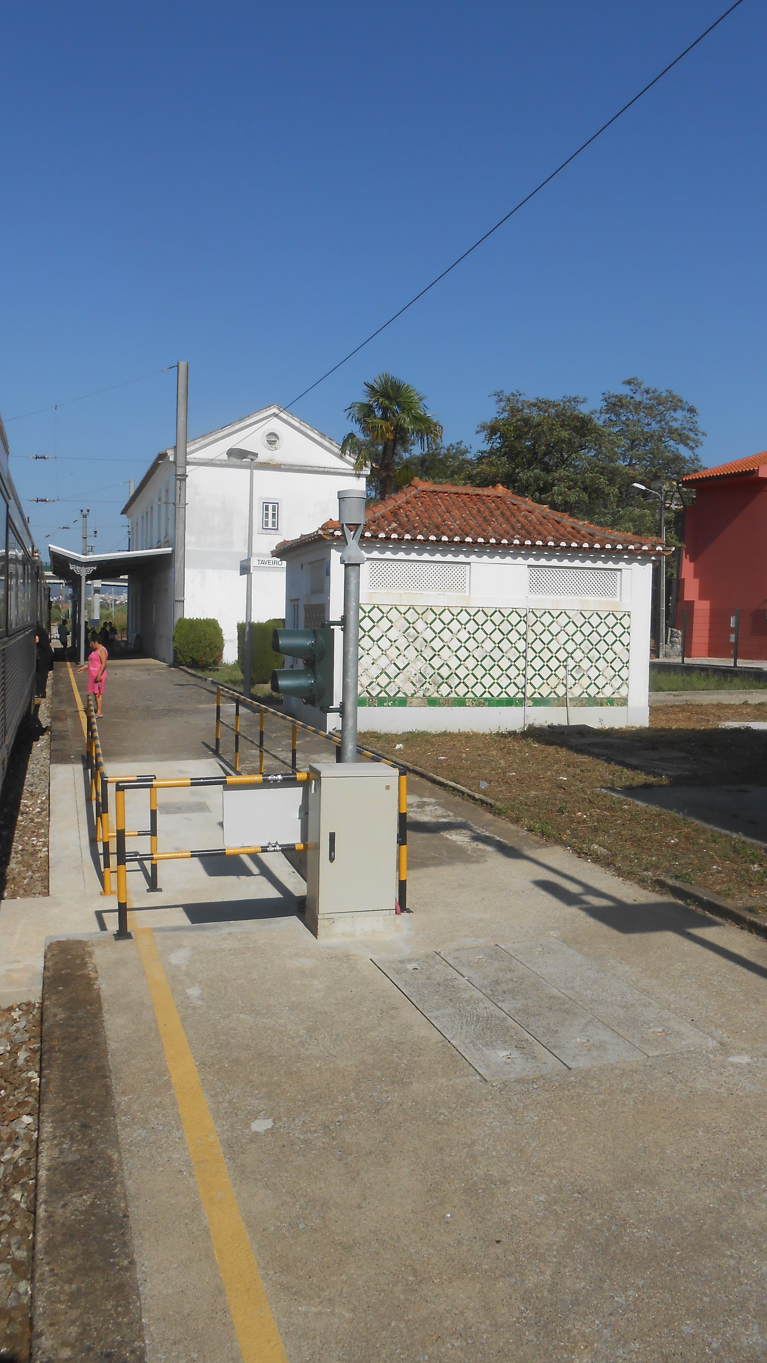 The railway station of Taveiro at the Linha do Norte which is the main railway track in Portugal.